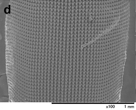 SEM photo of the middle part of the radula of Halongella schlumbergeri (Morlet, 1886). Locality: 20071122D Hải Phòng Province, Hải Phòng City, Cát Bà Island, Cát Bà Nat. Park, between Cát Bà N.P., ranger st. and Quan Y, GPS not recorded, leg. Ohara, K, Okubo, K. & Otani, J. U., 22.11.2007., coll PGB (in ethanol, anatomically examined).